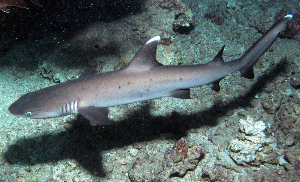 White tip reef shark, Triaenodon obesus in a cave at Shaab Marsa Alam, Red Sea, Egypt #SCUBA